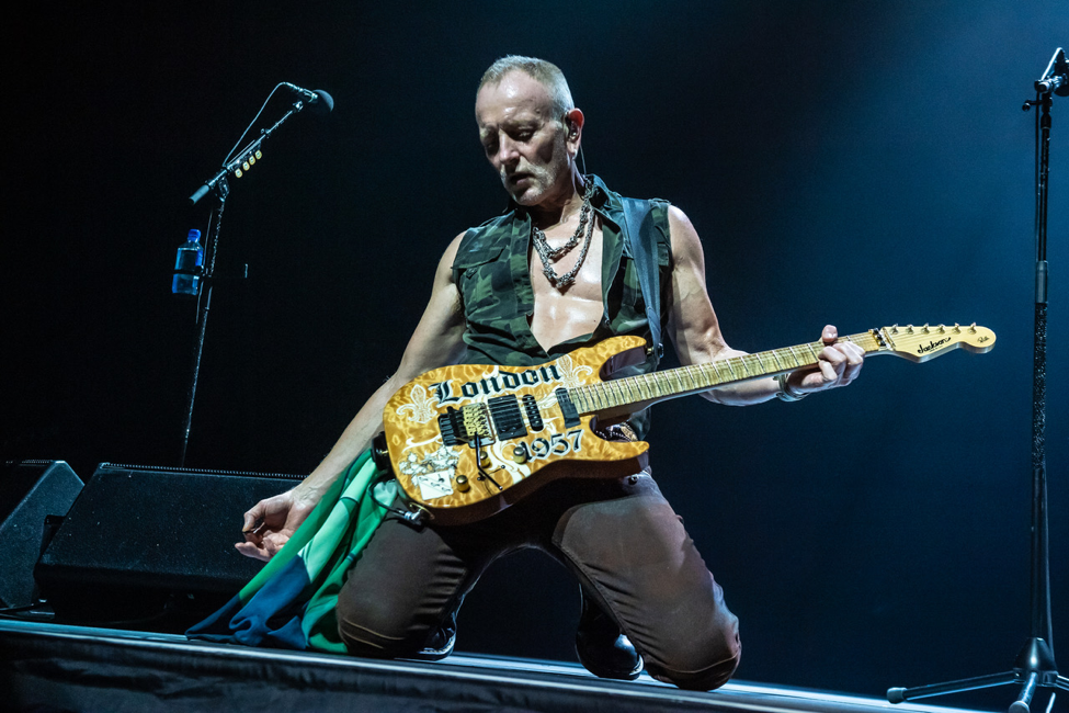 Phil Collen performing live in 2018.